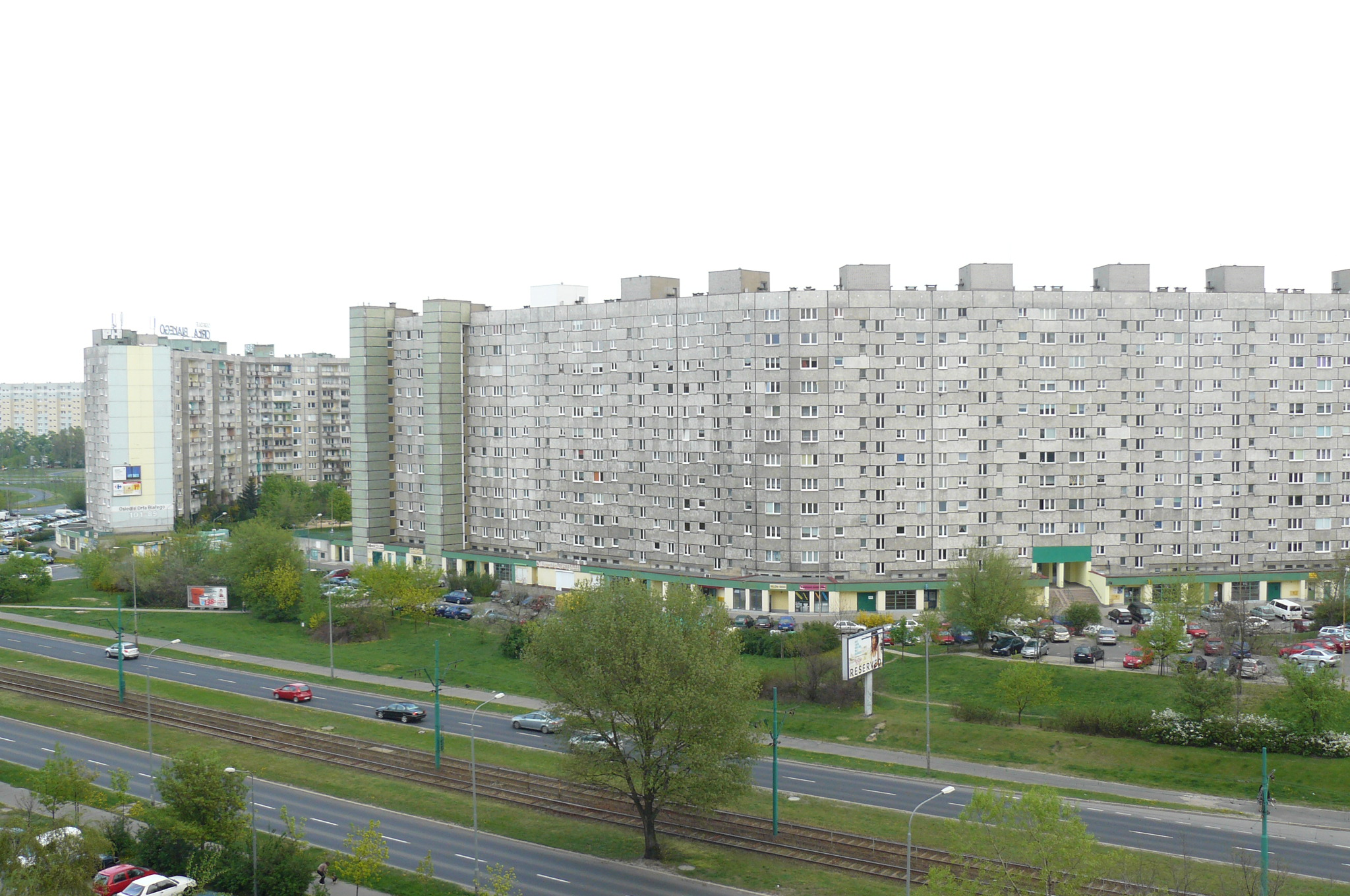 Orla Bialego Distr. Poznan.